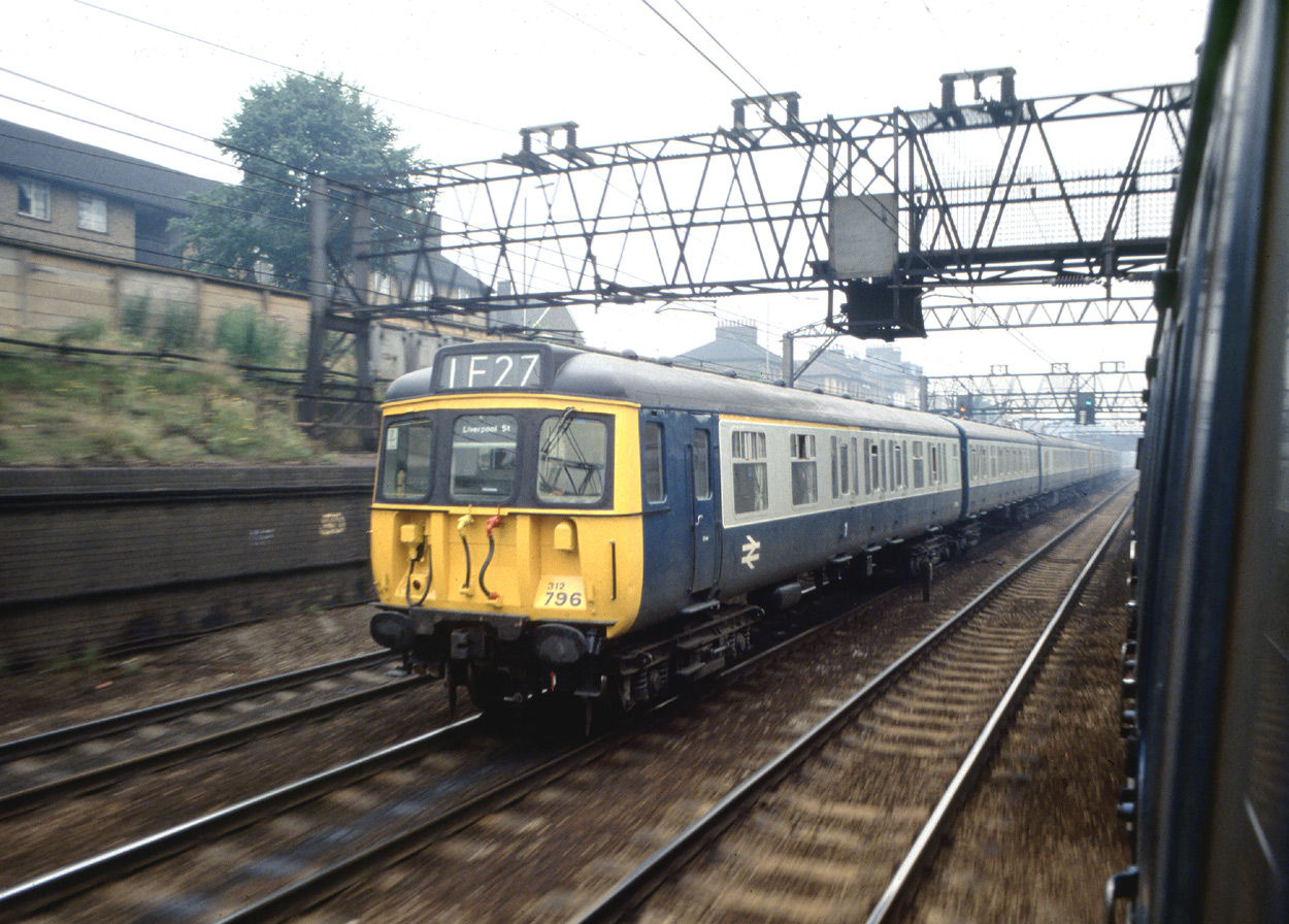 The front of a British Railways class 312 stock train in InterCity Blue/Grey livery passes through London on a working to London Liverpool Street Station, as seen from the open window of another train. The yellow stripe above the windows denotes the 1st class seating, which for the convenience of 1st class passengers (so they should be nearer the ticket barrier) is at the London end of the train. Photographed by SP Smiler